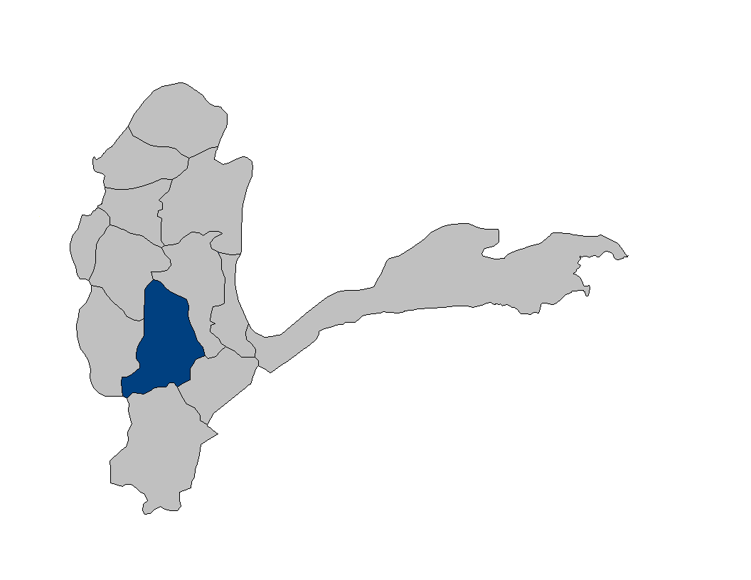 Location map for the Jurm District of Badakhshan Province, Afghanistan. Original map source: Image:Badakhshan districts.png